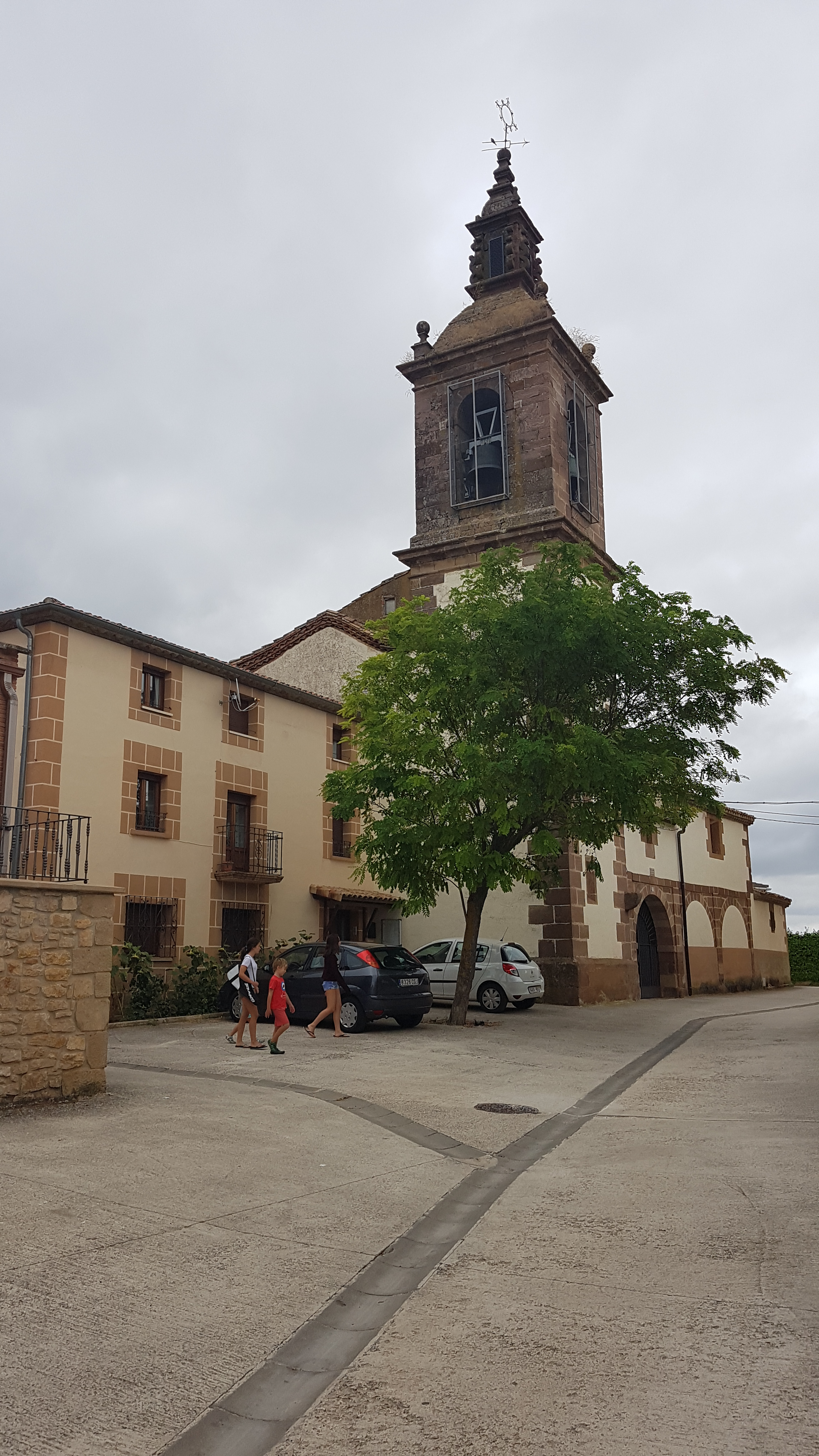 Church of Saint Faust in Antzin